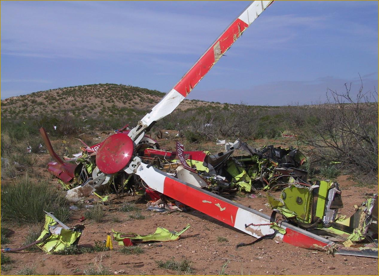 N502MT Wreckage Near Pyote, Texas. NTSB Photo.